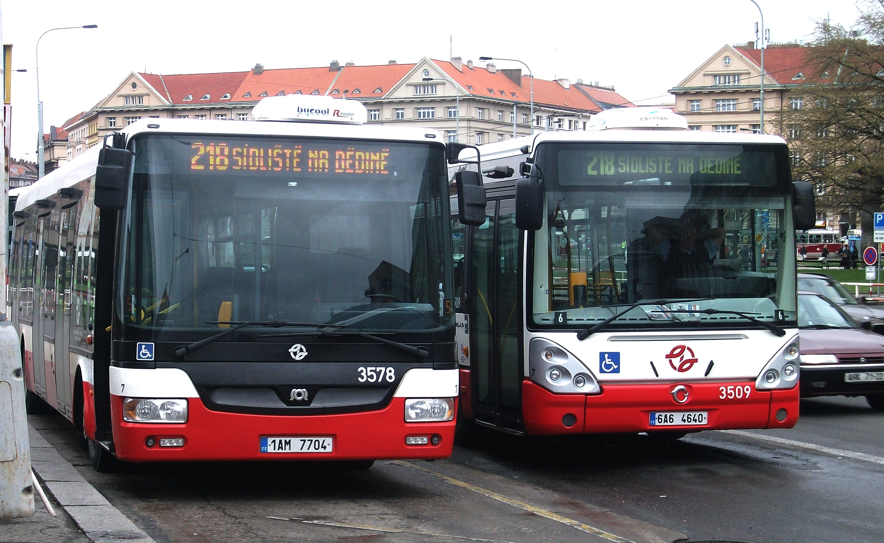 SOR NB 12 & Irisbus Citelis 12 in Prague